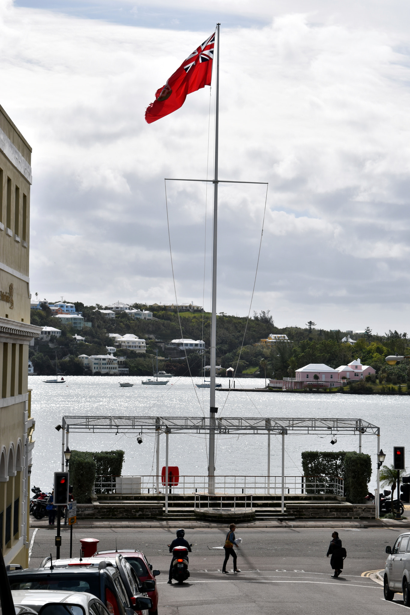 500px provided description: Hamilton Harbour [#travel ,#bermuda ,#hamiton]